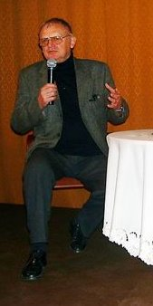 This image has been copied from the source with the permision of webmaster (and with the consent of the director of the service). The permission was granted to Stan Zurek (Zureks) via email from Mirosław Domański Jerzy Gruza